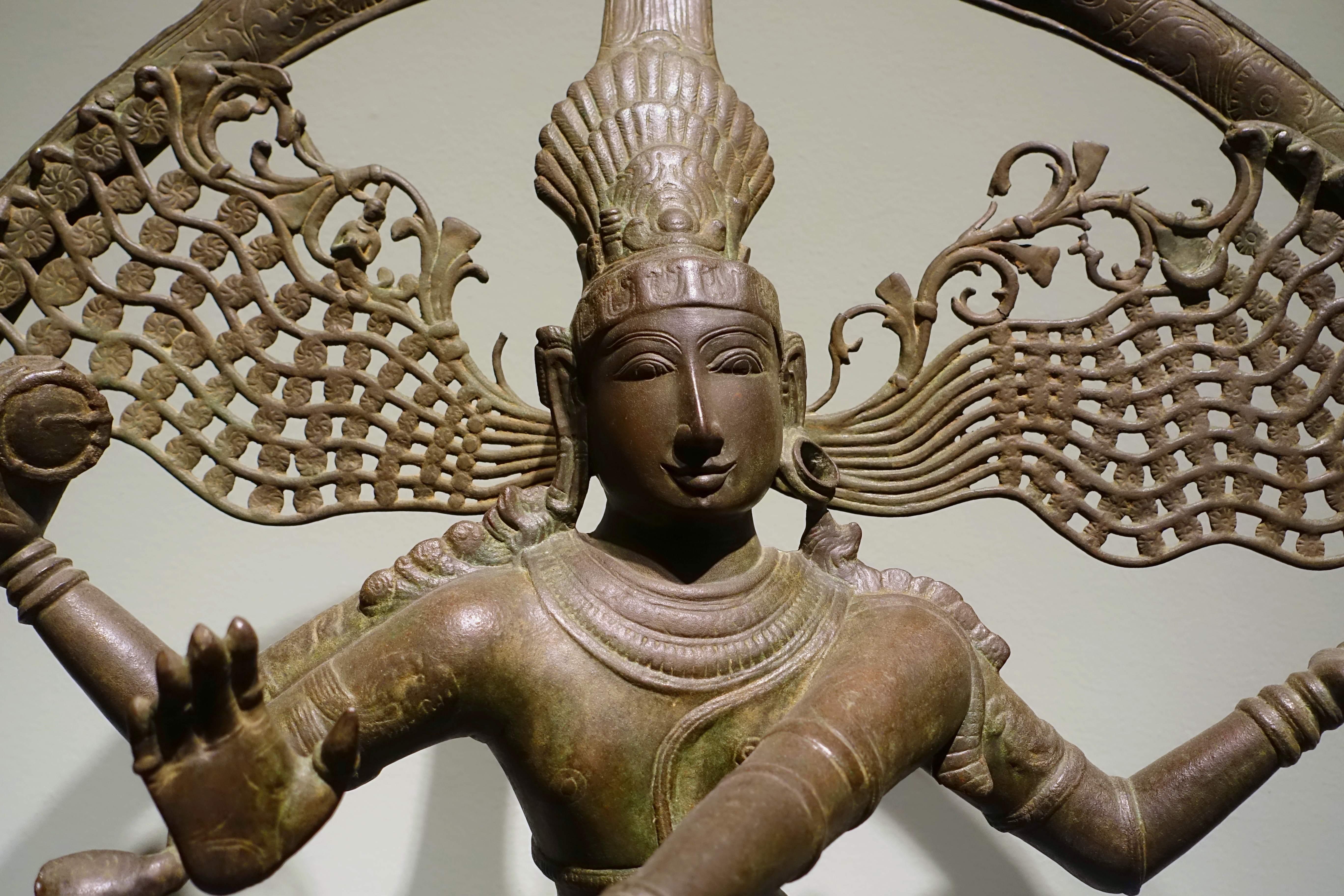 Exhibit in the Portland Art Museum - Portland, Oregon, USA.